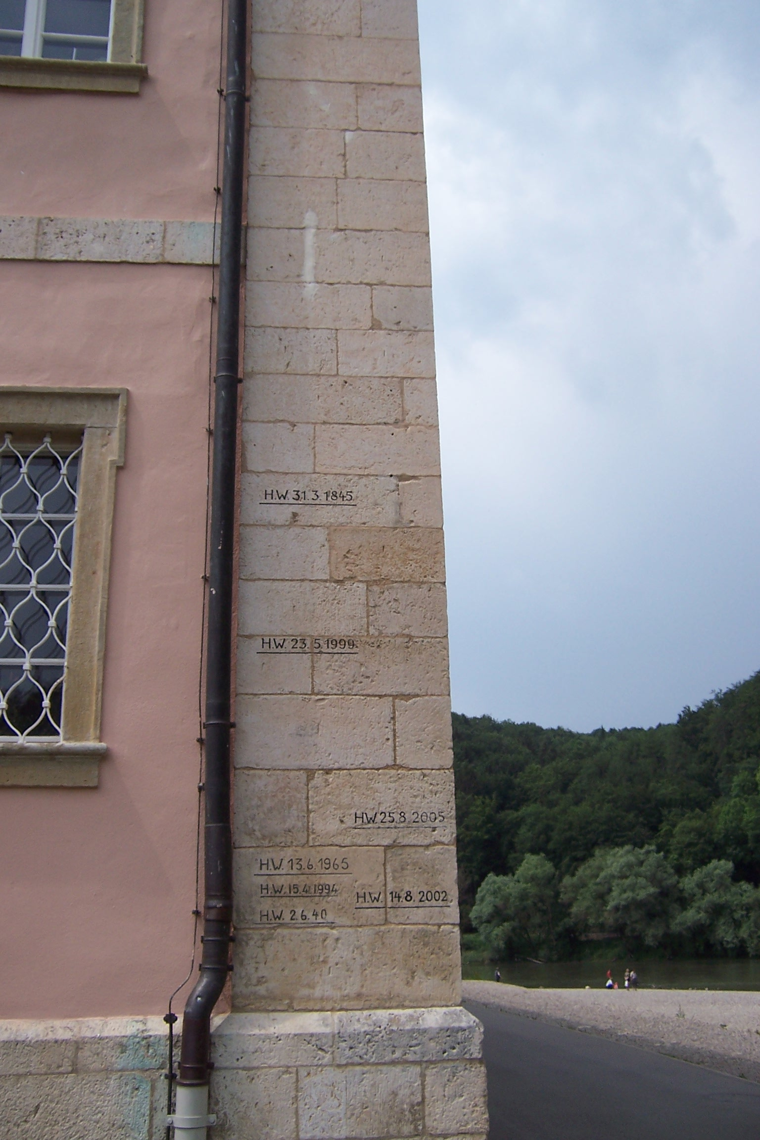 High water marks of river Danube at Weltenburg Abbey H.W. 31.3.1845 H.W. 23.5.1999 H.W. 25.8.2005 H.W. 14.8.2002 H.W. 13.6.1965 H.W. 15.4.1994 H.W. 2.6.40